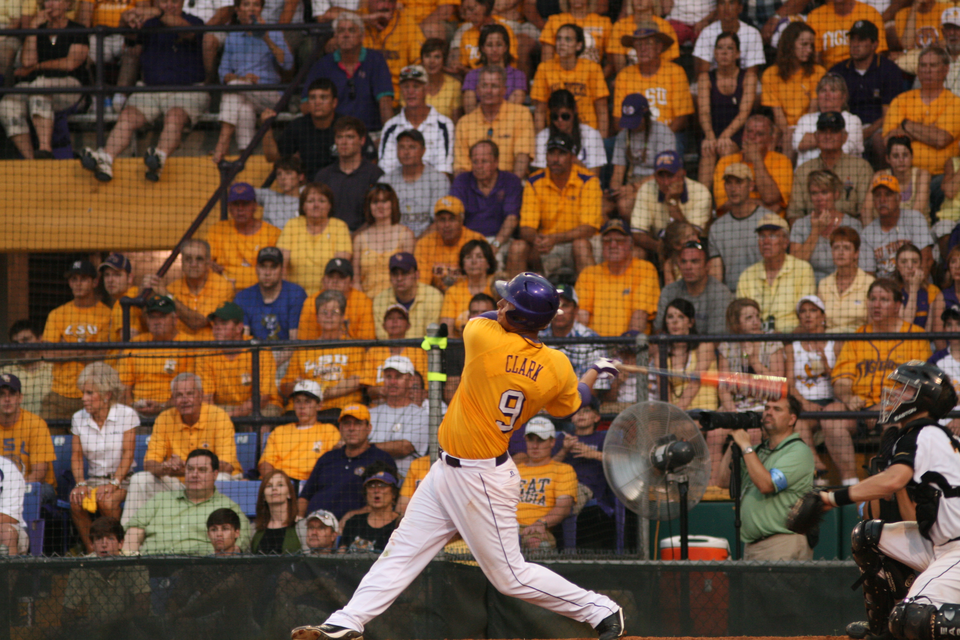 Matt Clark HR, Regional Final